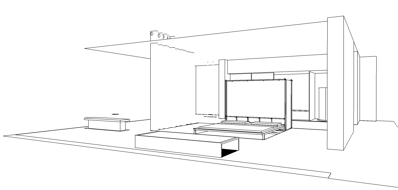 Modello parte notturna di un'abitazione BBPR